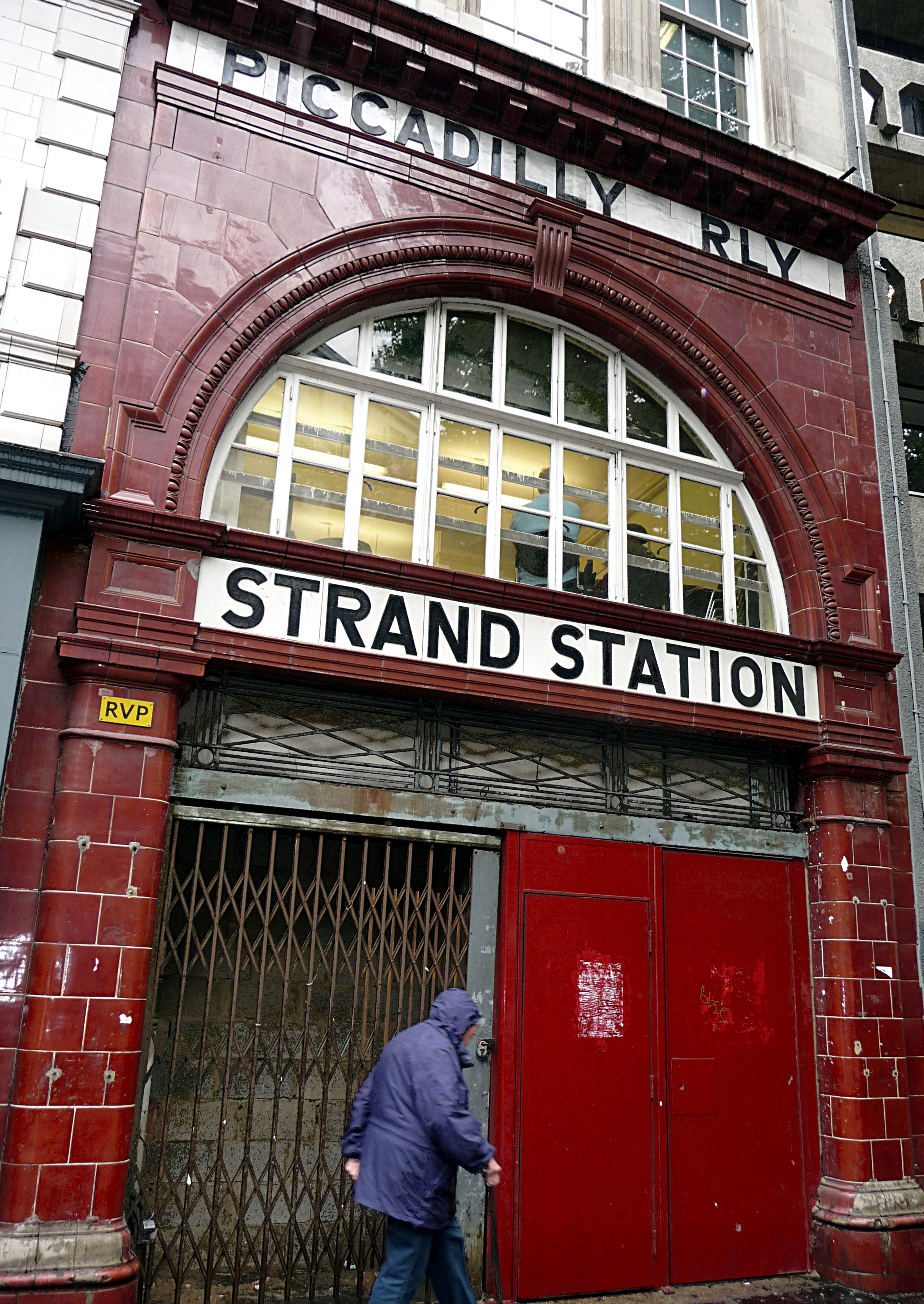 Aldwych Tube Station